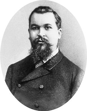 The russian goldsmith Michael Evlampievich Perchin (1860-1903)